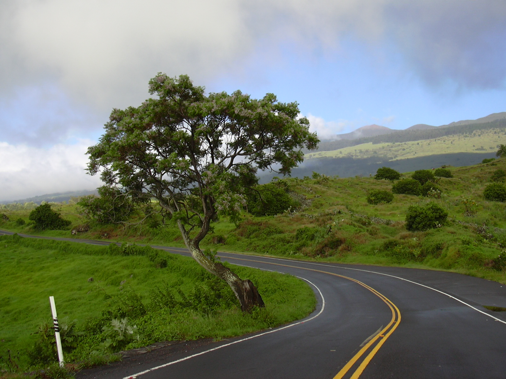 Melia azedarach (habit). Location: Maui, Keokea